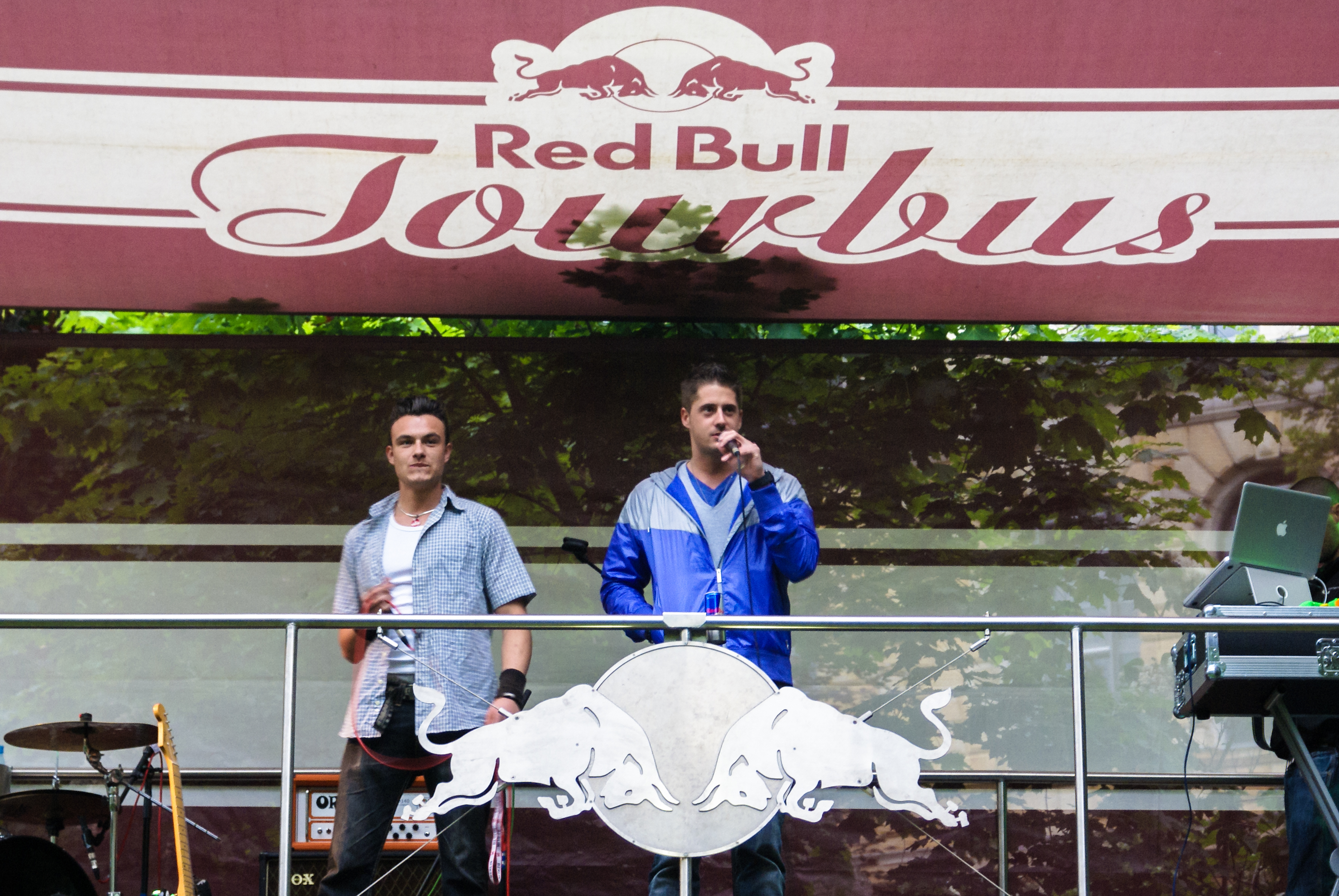 SDP performing on top of Red Bull Tourbus